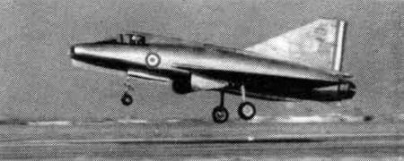 The SNCASE SE.212 Durandal in flight. The Durandal was a French jet and rocket mixed-power fighter aircraft which first flew on 20 April 1956. Designed in parallel with the lightweight fighter-bomber projects destined for the 1953 NATO Fighter Competition that resulted in the winner, the Fiat G.91 and a number of "also-rans." The SE.212 arose out of the same thinking but devolved into a dedicated point-defence interceptor. Despite promising results in tests, the project was cancelled.